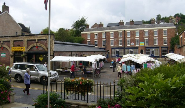 Cheadle Market. High Street, Cheadle, Staffordshire. While the Victorian market hall on the left was being refurbished recently the traders were boarded out in 224454